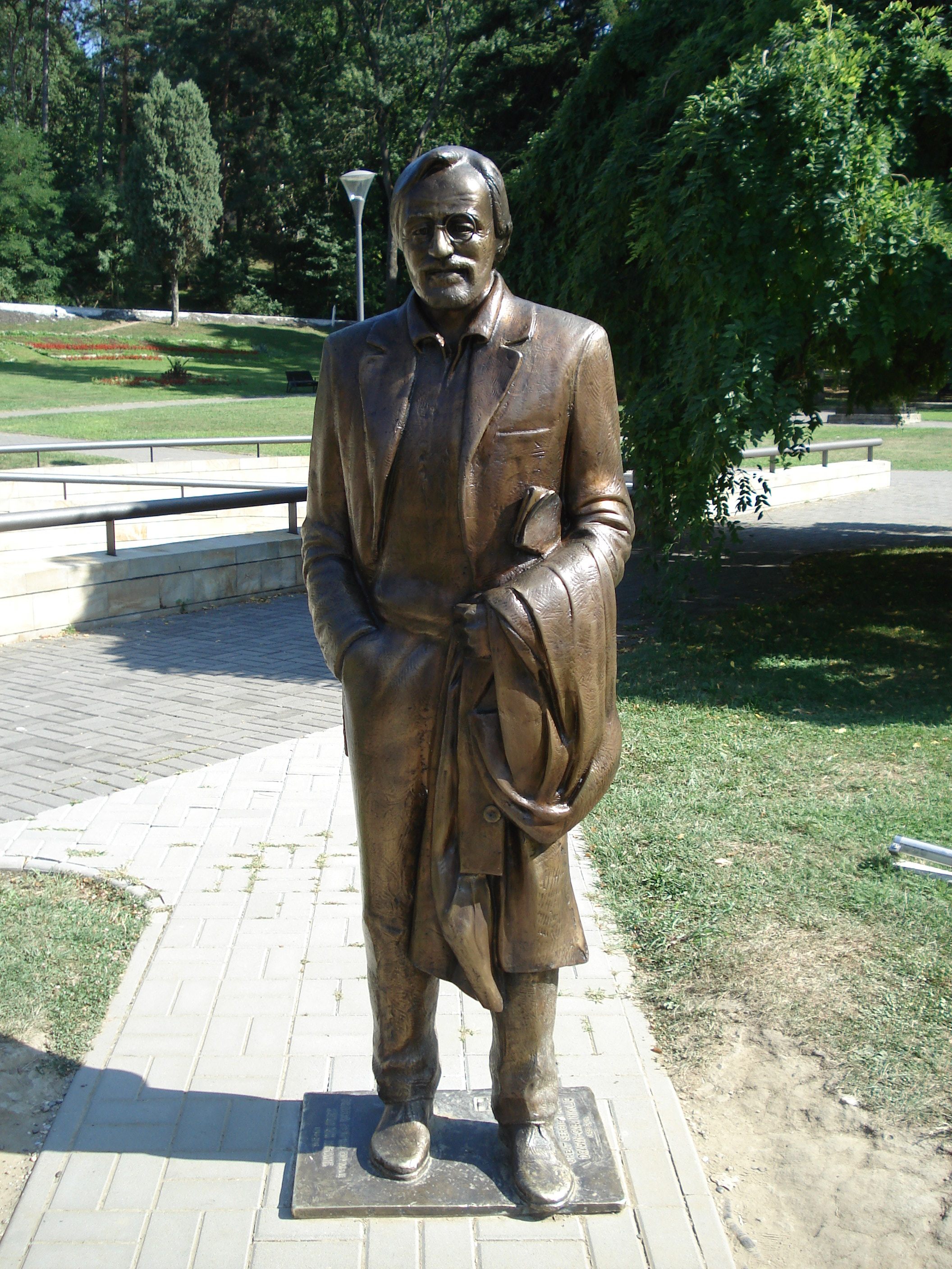 Spomenik Draganu Nikoliću u Vrnjačkoj Banji 02